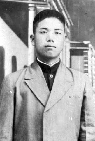 Jo Myeong-ha's photo